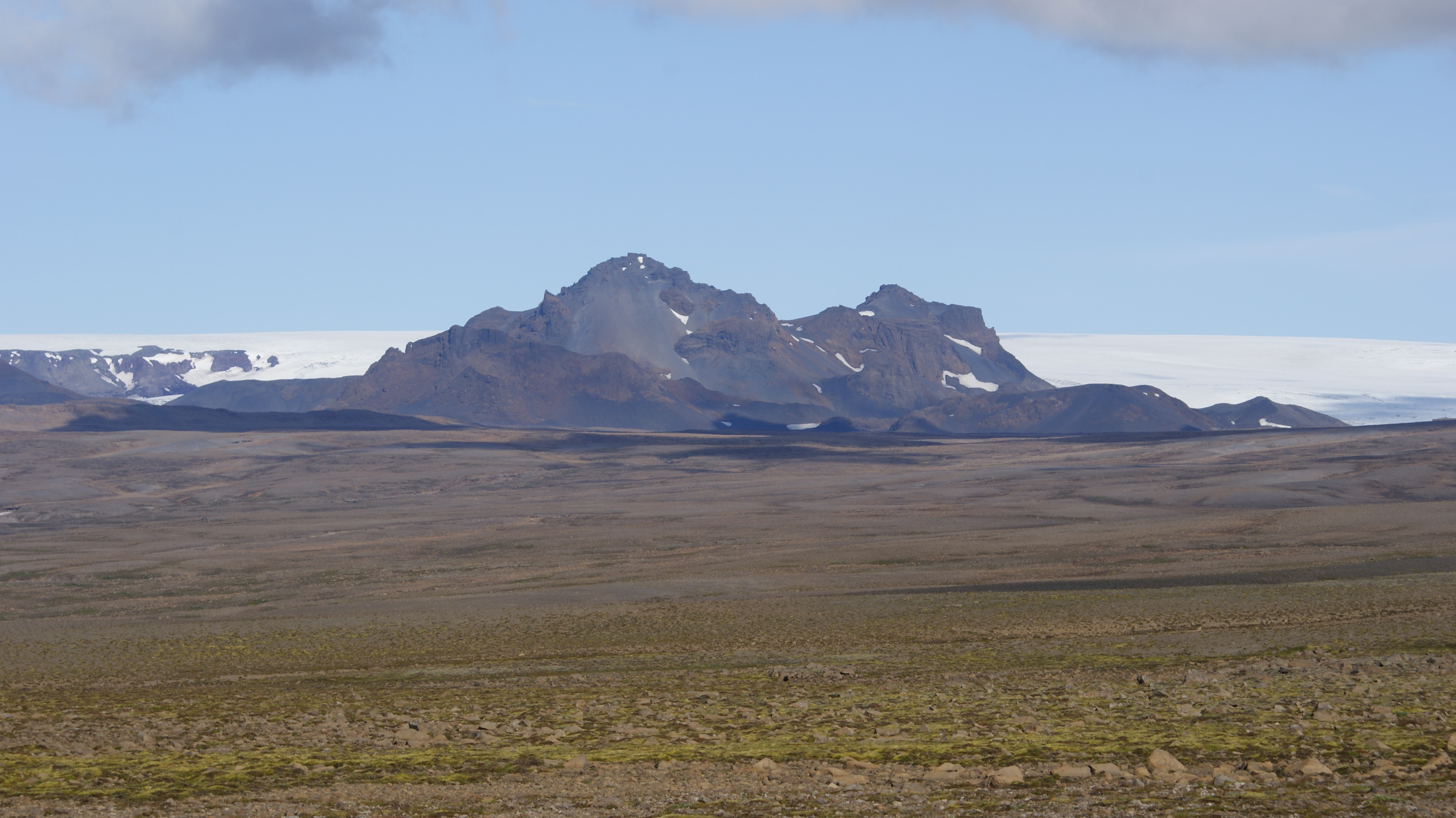 Kjölur, the central highland desert of Iceland. View towards Hofsjökull and Arnarfell hiðmikla.